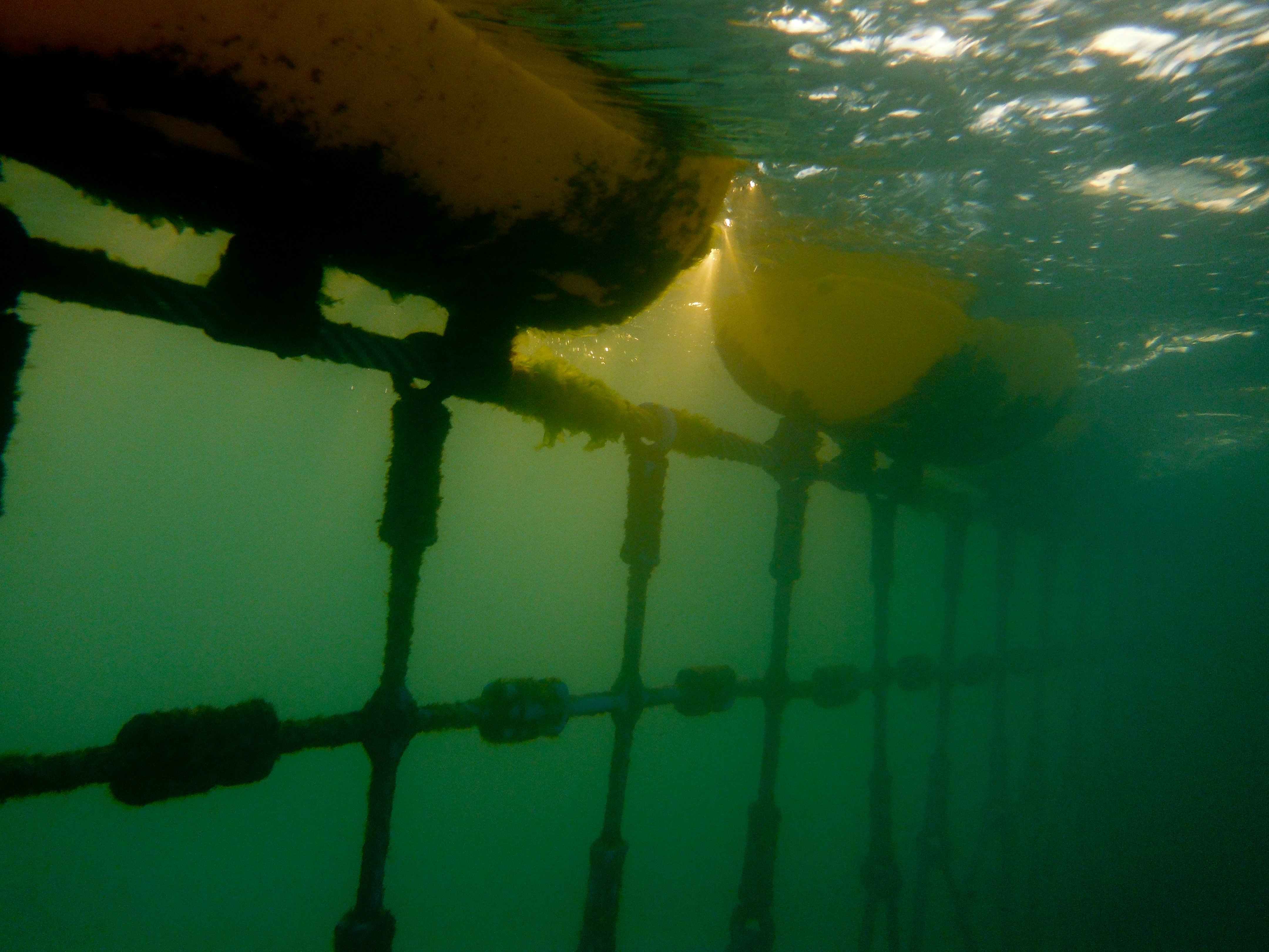 Coogee Beach Western Australia Shark net